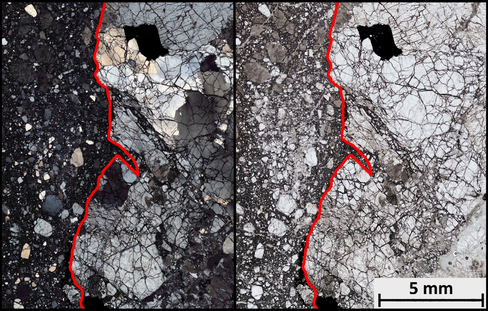 Thin section image of a sheared cataclasite in both plane polars (right) and crossed polars (left). Very highly fractured quartz and feldspar wall rock (right half of image). Contact outlined in red. Cataclasite (left half of image) is generally clast supported with rounded to subangular grains of quartz and feldspar within an optically opaque matrix (light brown on right to black on left). Core sample taken from the San Andreas Fault at Elizabeth Lake, CA.